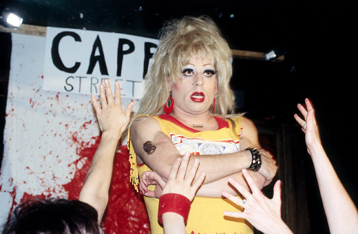 Drag superstar and promoter Heklina at Trannyshack in San Francisco